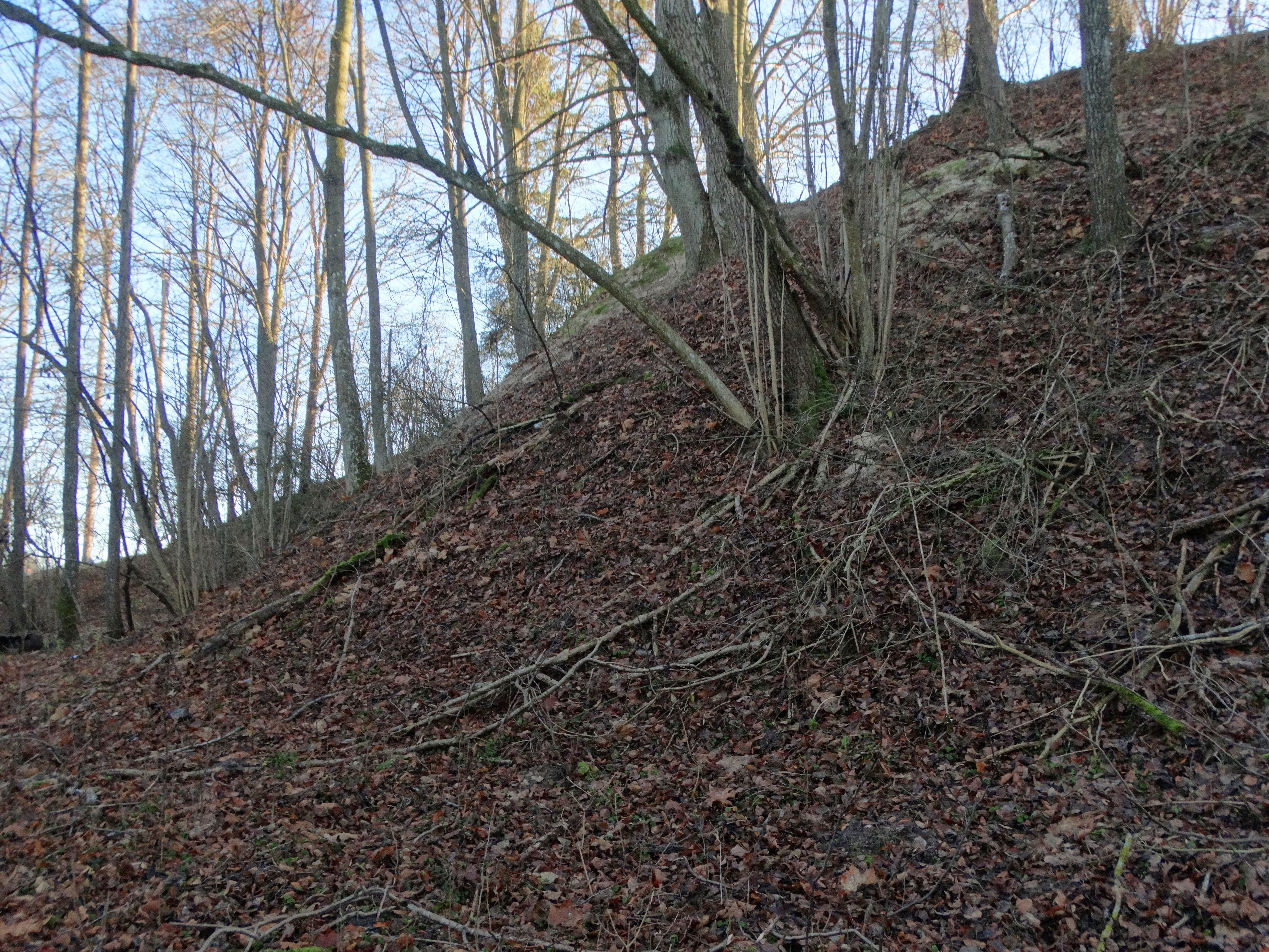 Hillfort in Prienlaukys, Prienai district, Lithuania